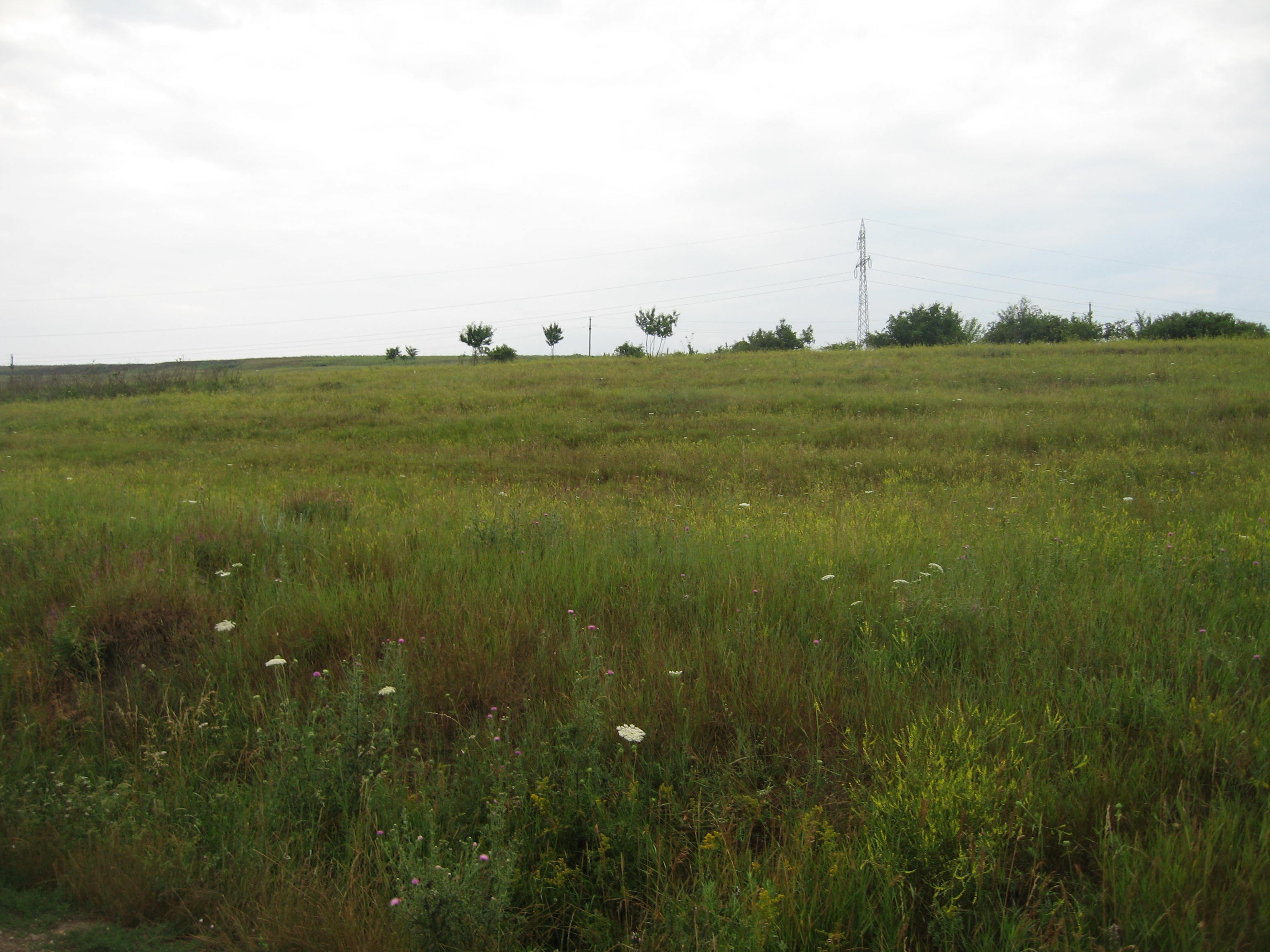 Rezervaţia Valea lui David